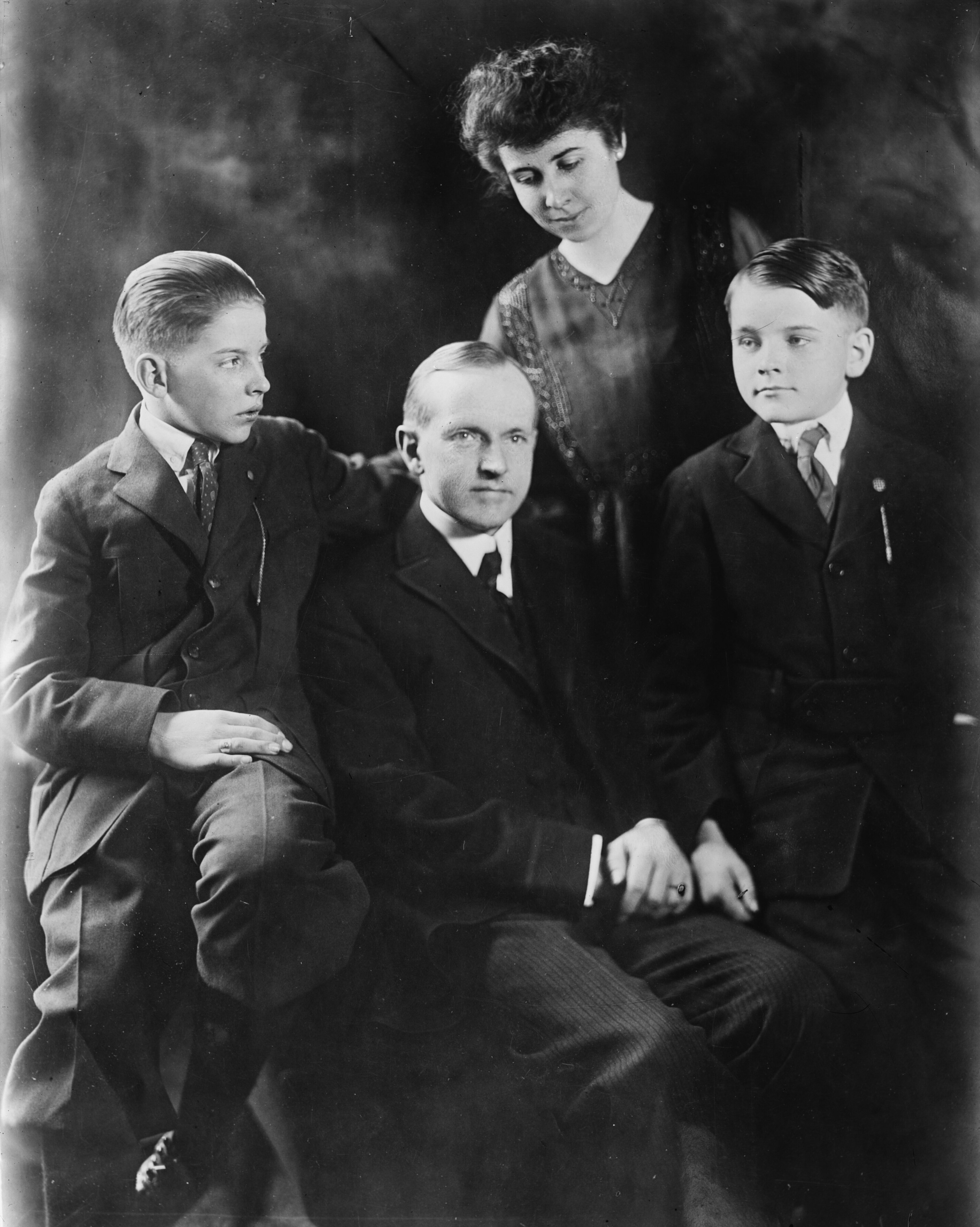 Title: Coolidge family Abstract/medium: 1 negative : glass ; 5 x 7 in. or smaller.